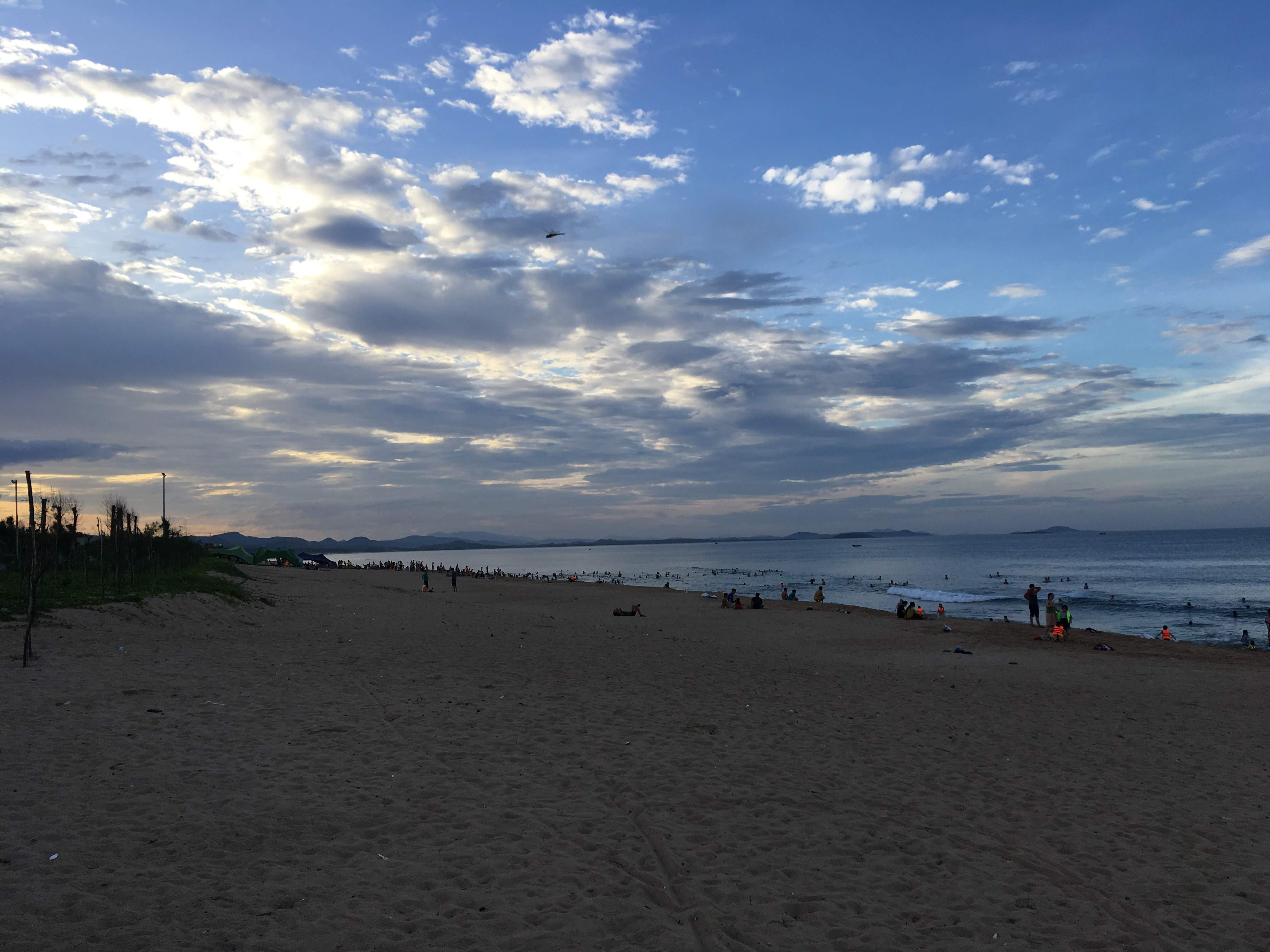 The beach in Tuy Hoa, Phu Yen Province.